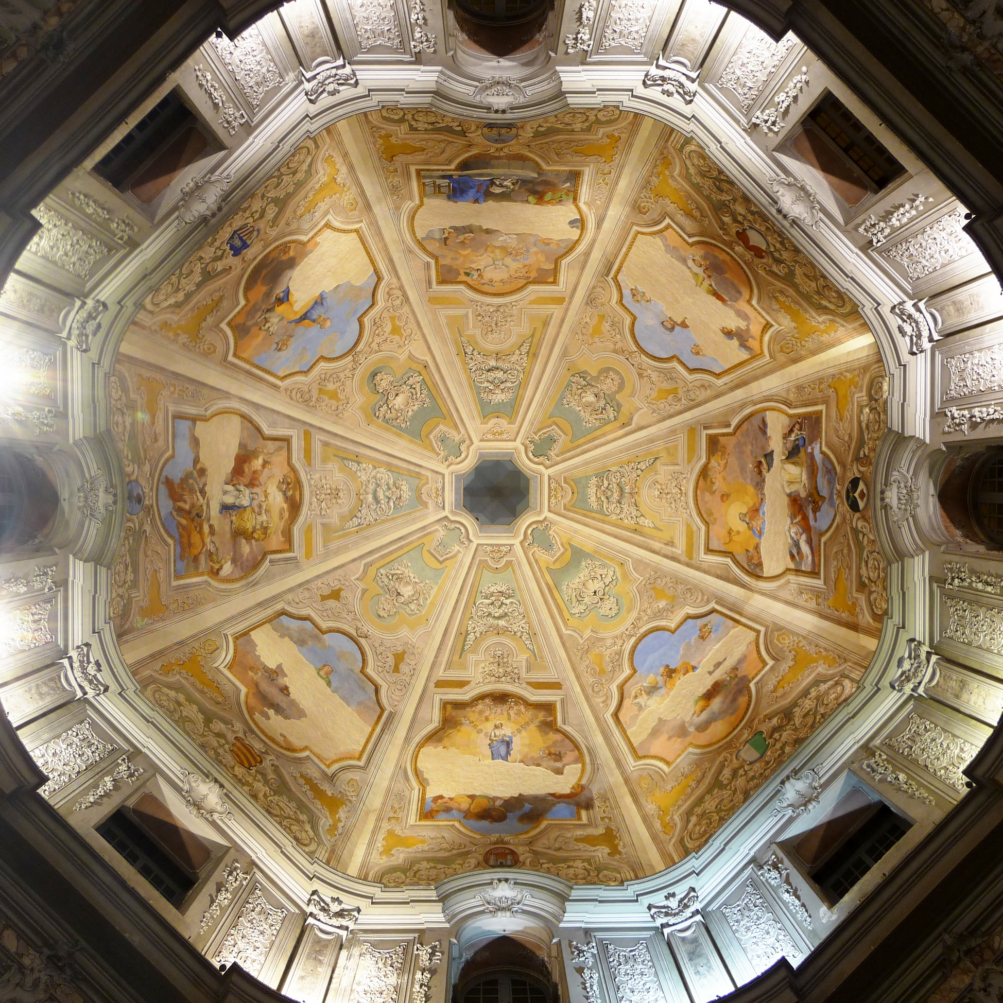 Chiesa di Santa Caterina, Livorno, Italy - dome